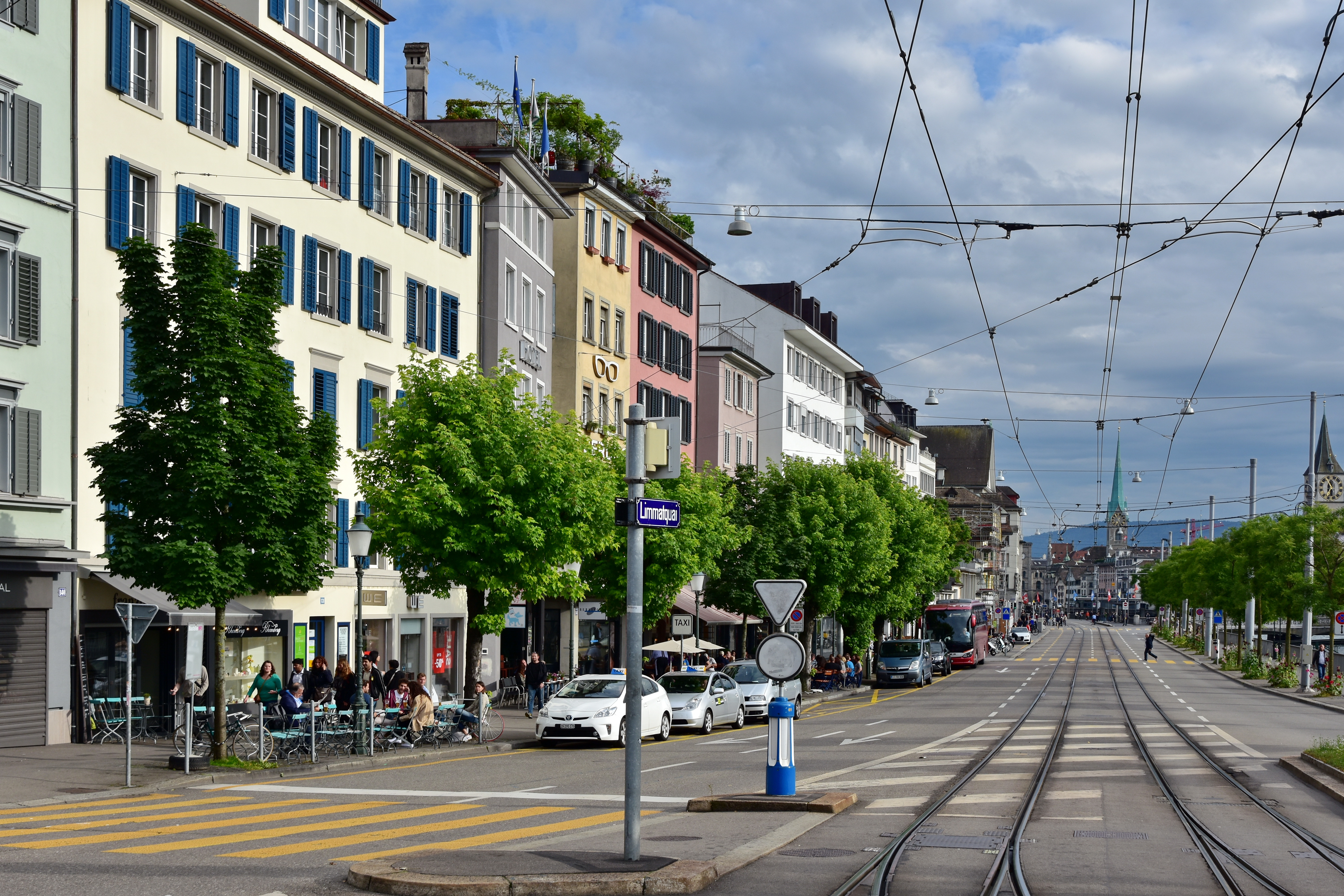 Limmatquai as seen from Central in Zürich (Switzerland)